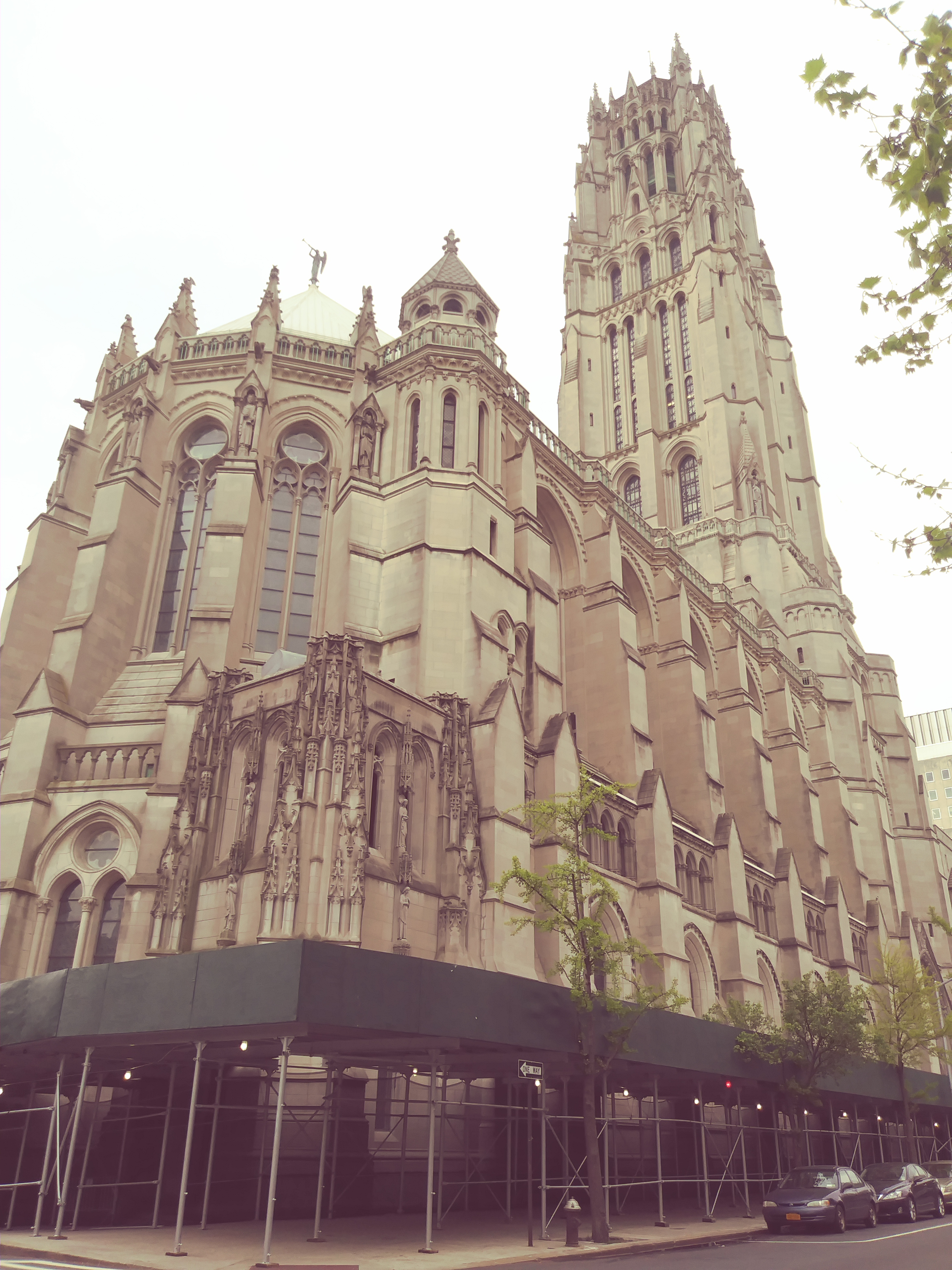 Riverside Church in New York City, view from across Riverside Drive in Riverside Park, May 6 2019